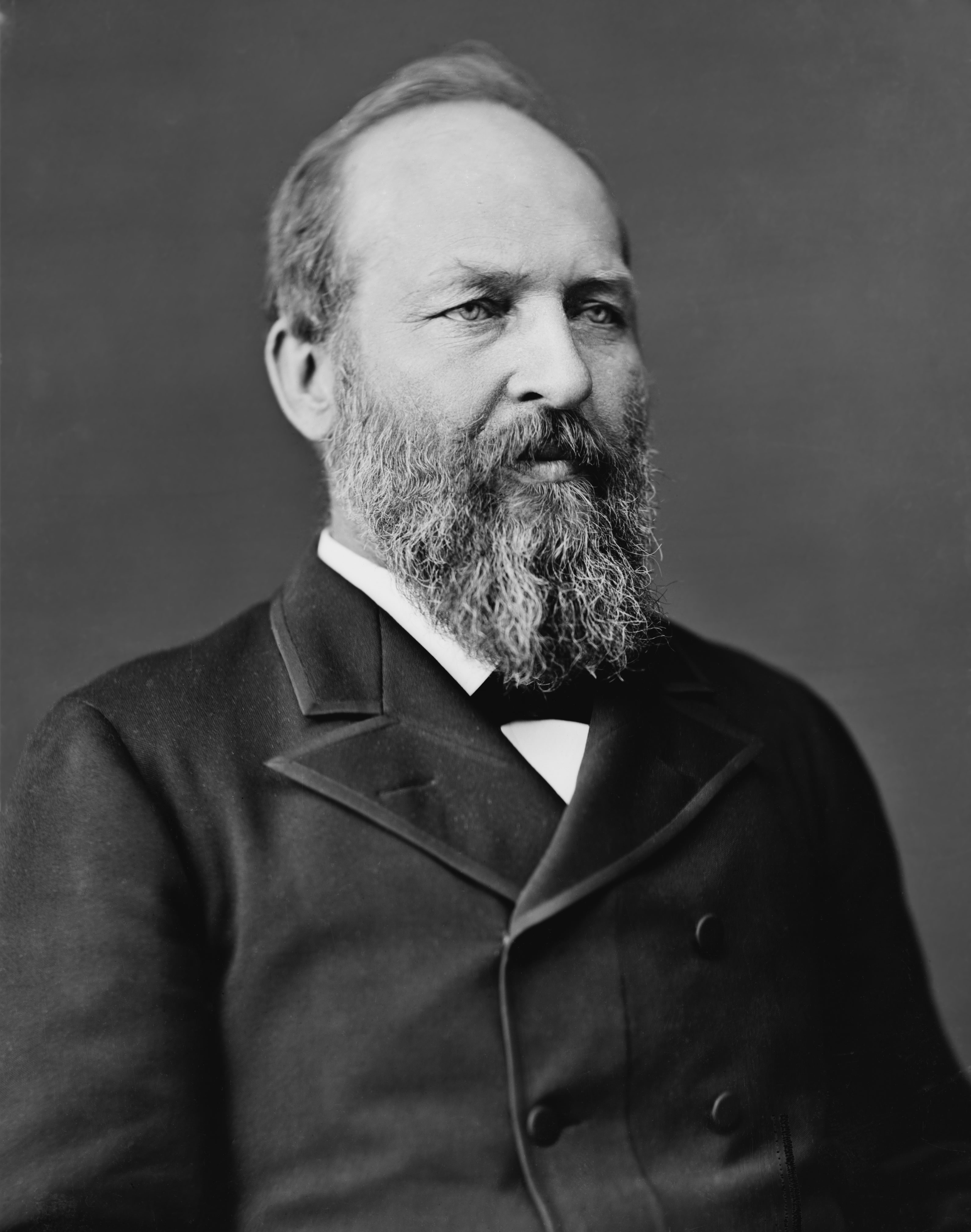 Pres. James Garfield